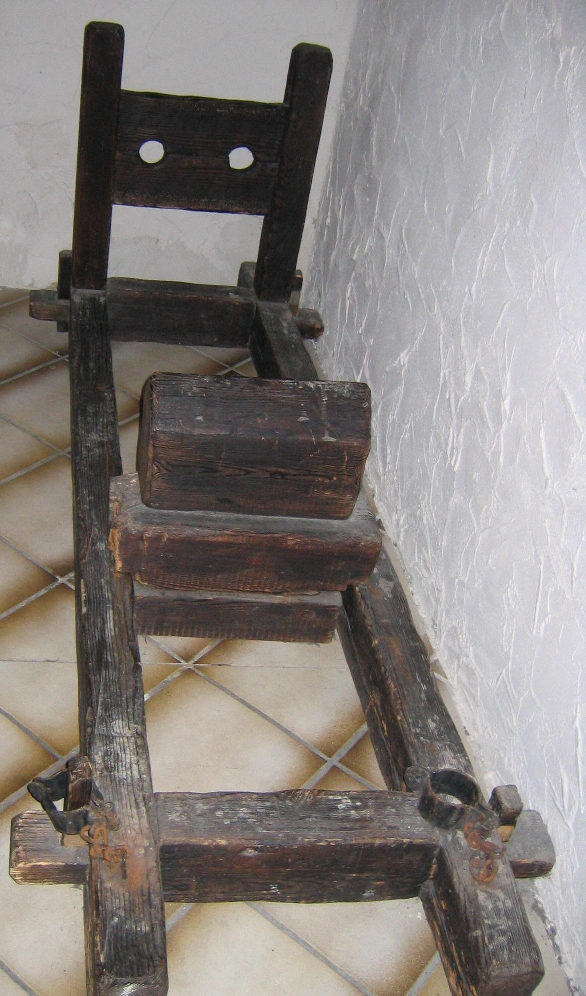 Reconstruction of a rack at the torture museum in Freiburg im Breisgau